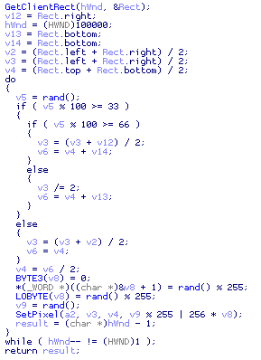 DecompilerOutput